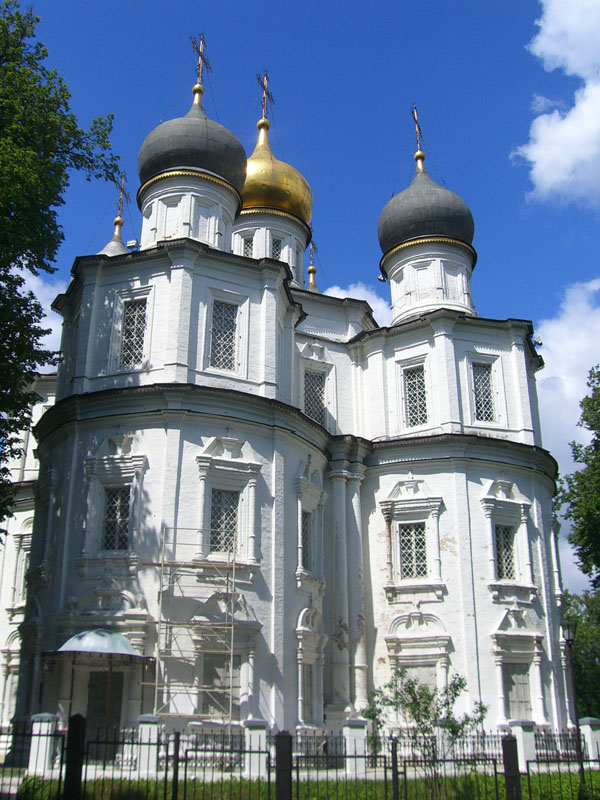 Kazansky temple in Uzkoe estate, Moscow